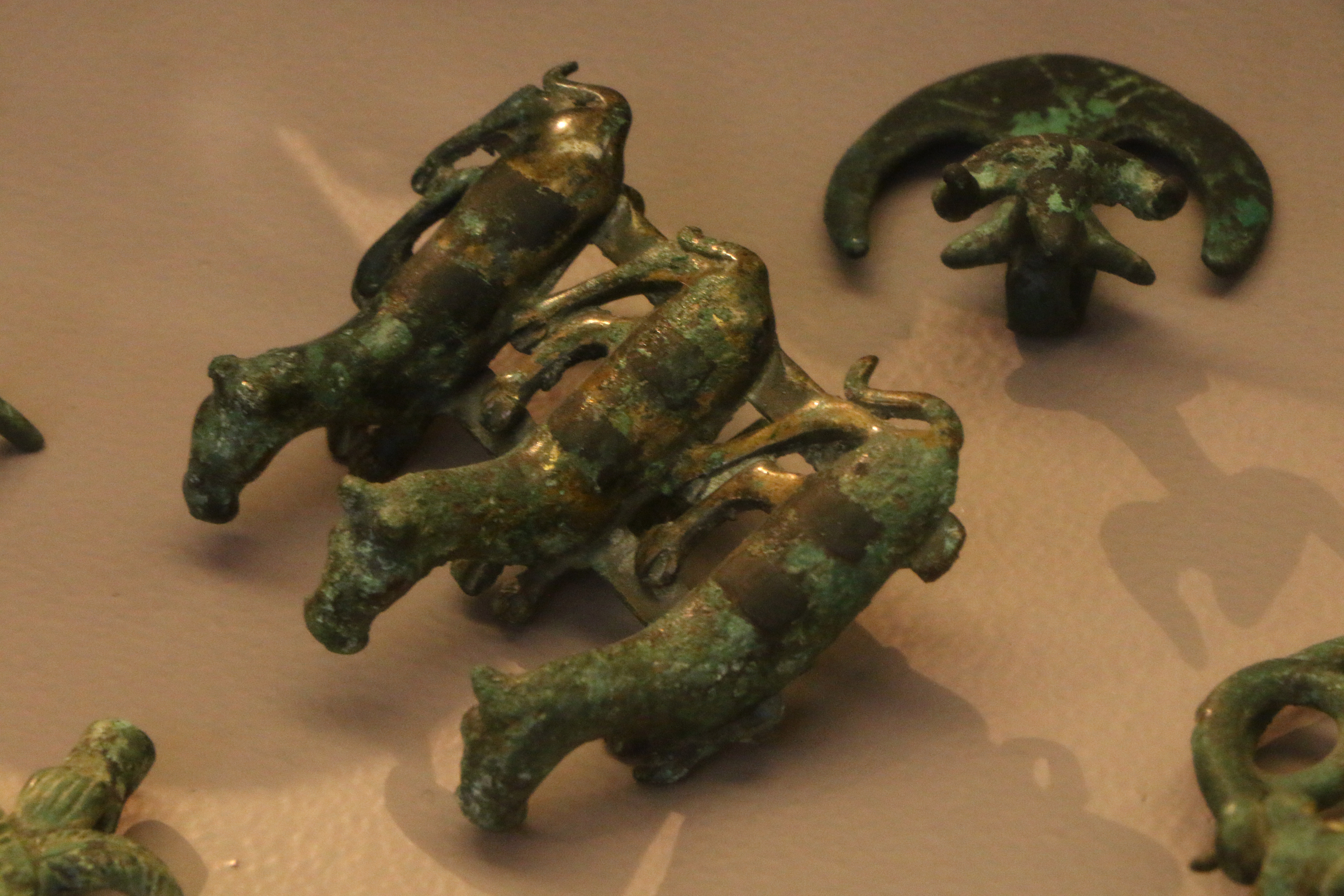 From the National Archaeological Museum of Saint-Germain-en-Laye near Paris France - beltbuckle with three felid - Koban graves - Koban culture